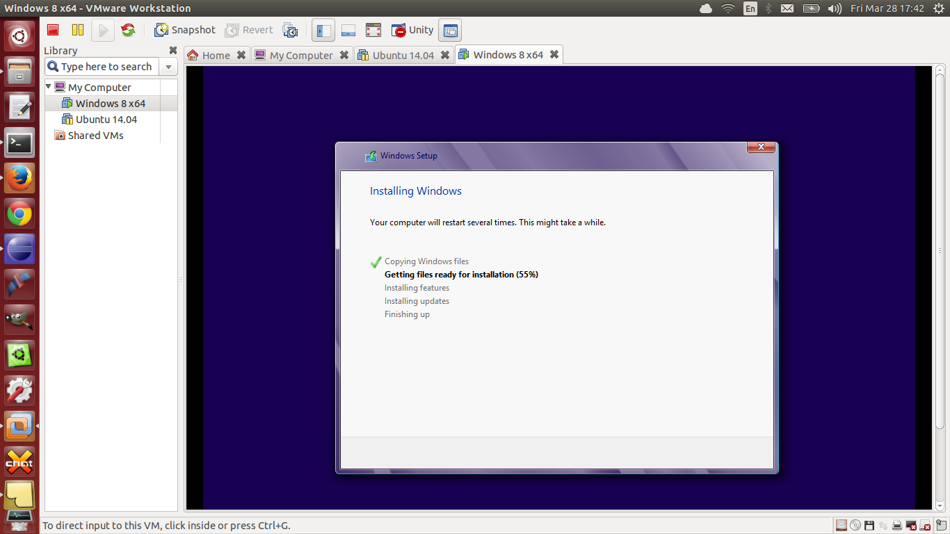 Screenshot showing Windows 8 installing on Ubuntu 14.04 using VMware Workstation 10.0